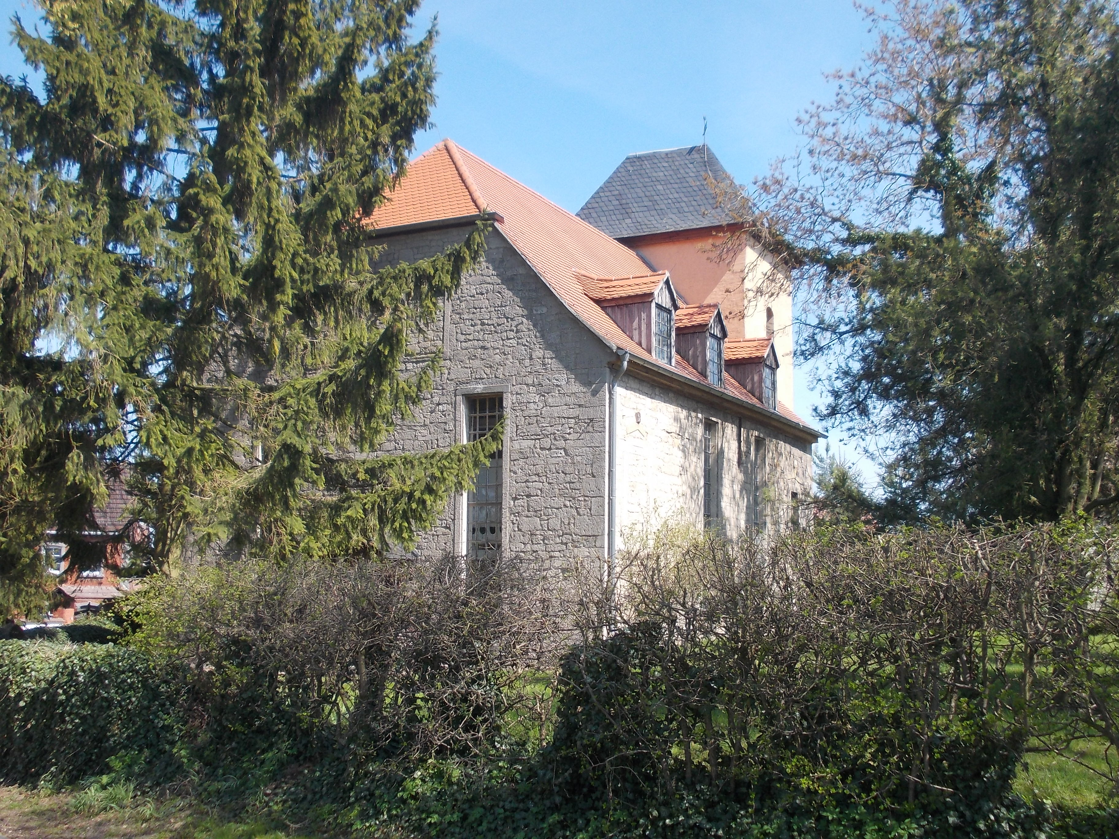 (Crölpa-)Löbschütz church (Naumburg, district: Burgenlandkreis, Saxony-Anhalt)